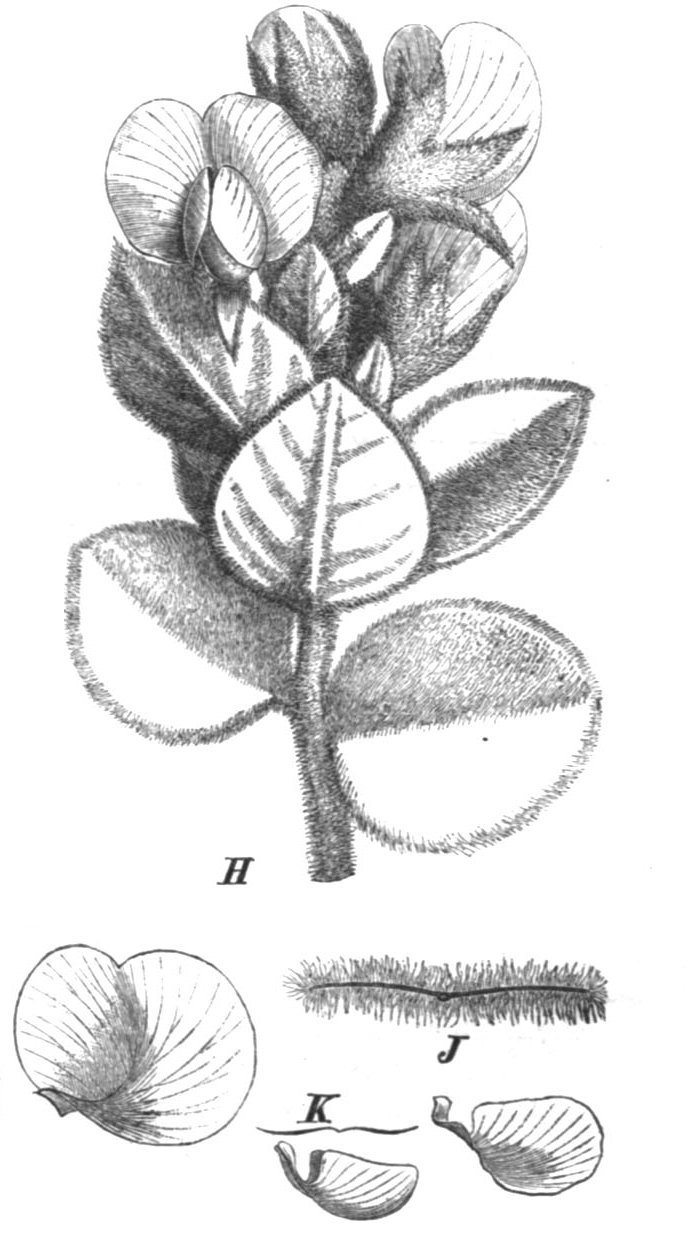 Illustration from book